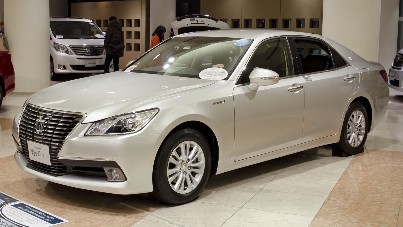 14th generation Toyota Crown Royal